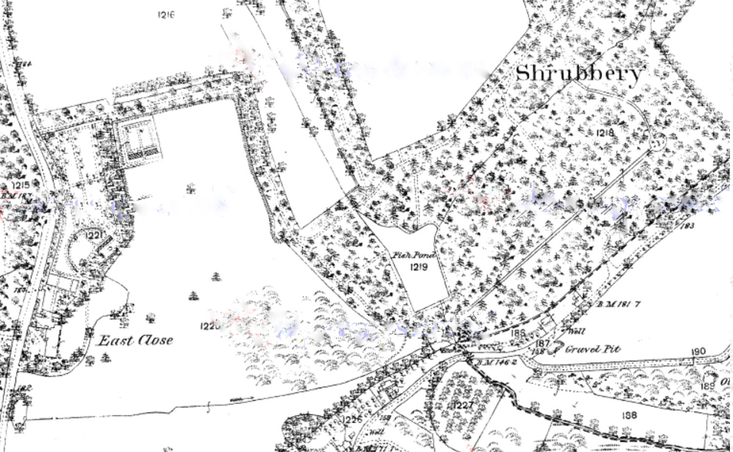 Ordnance Map of East Close, Hinton, Hampshire 1872